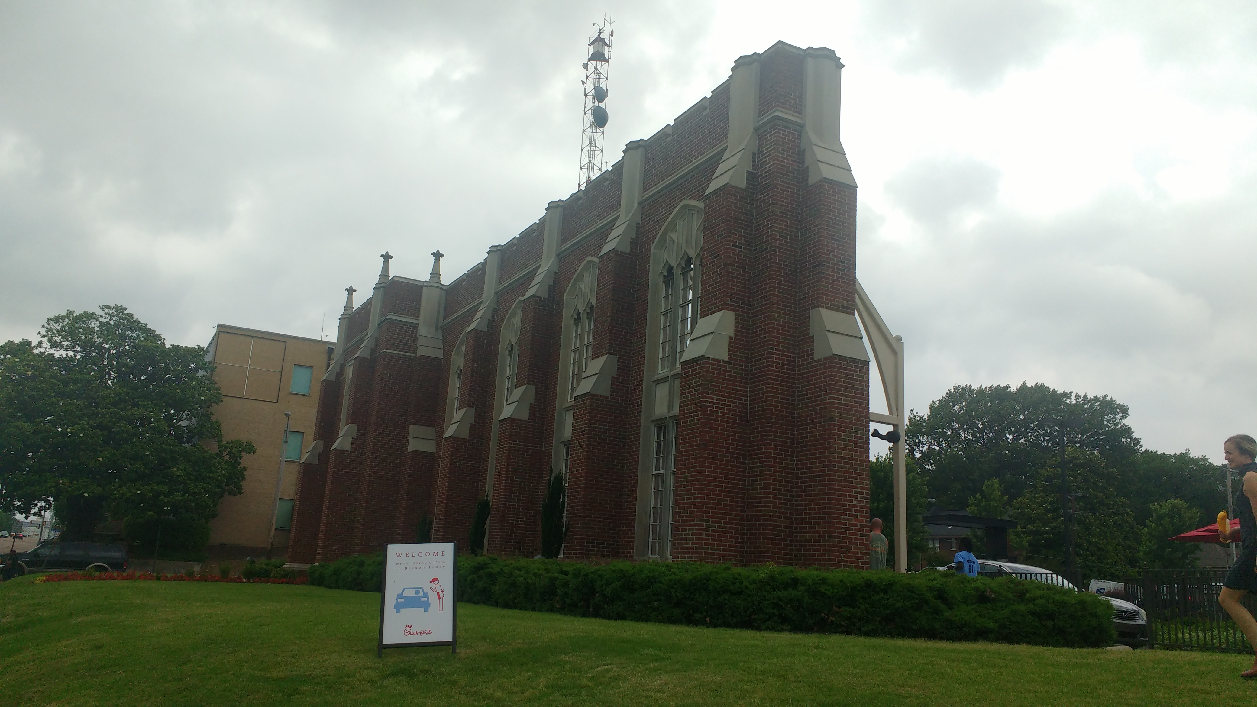 Cumberland Presbyterian Center remains serve as outdoor seating for the Chick-fil-A next door